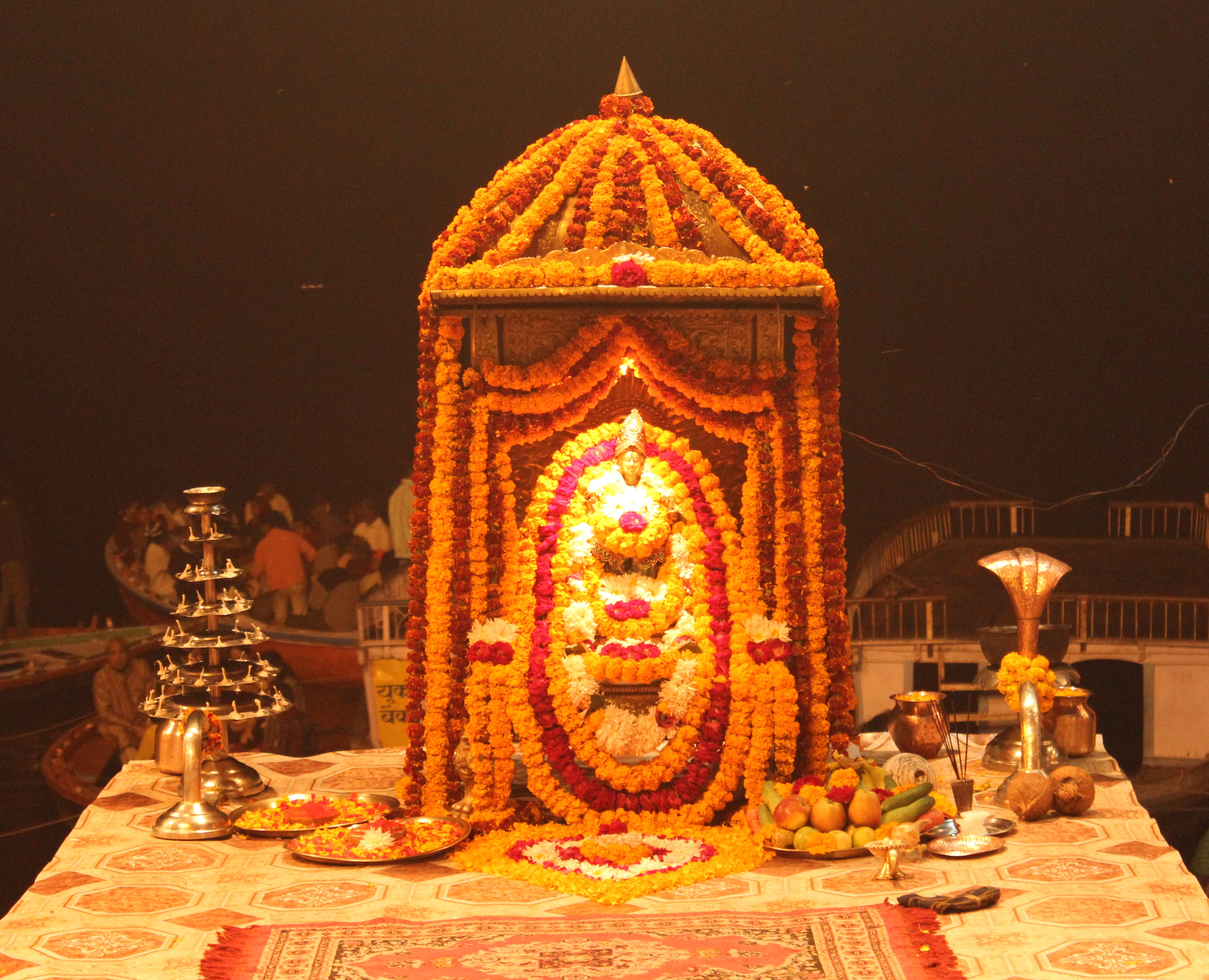 Idol of "Ganga Maata" (Goddess Ganges) at Dashashwamedh Ghat.